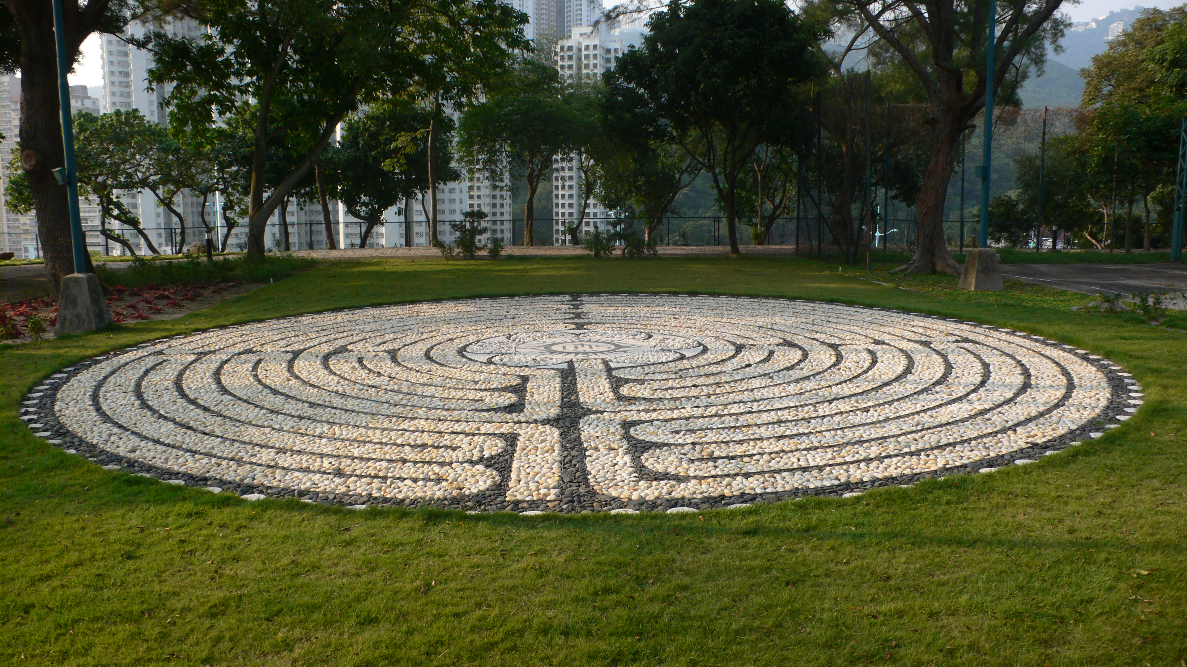 The labyrinth in Holy Spirit Seminary, Hong Kong